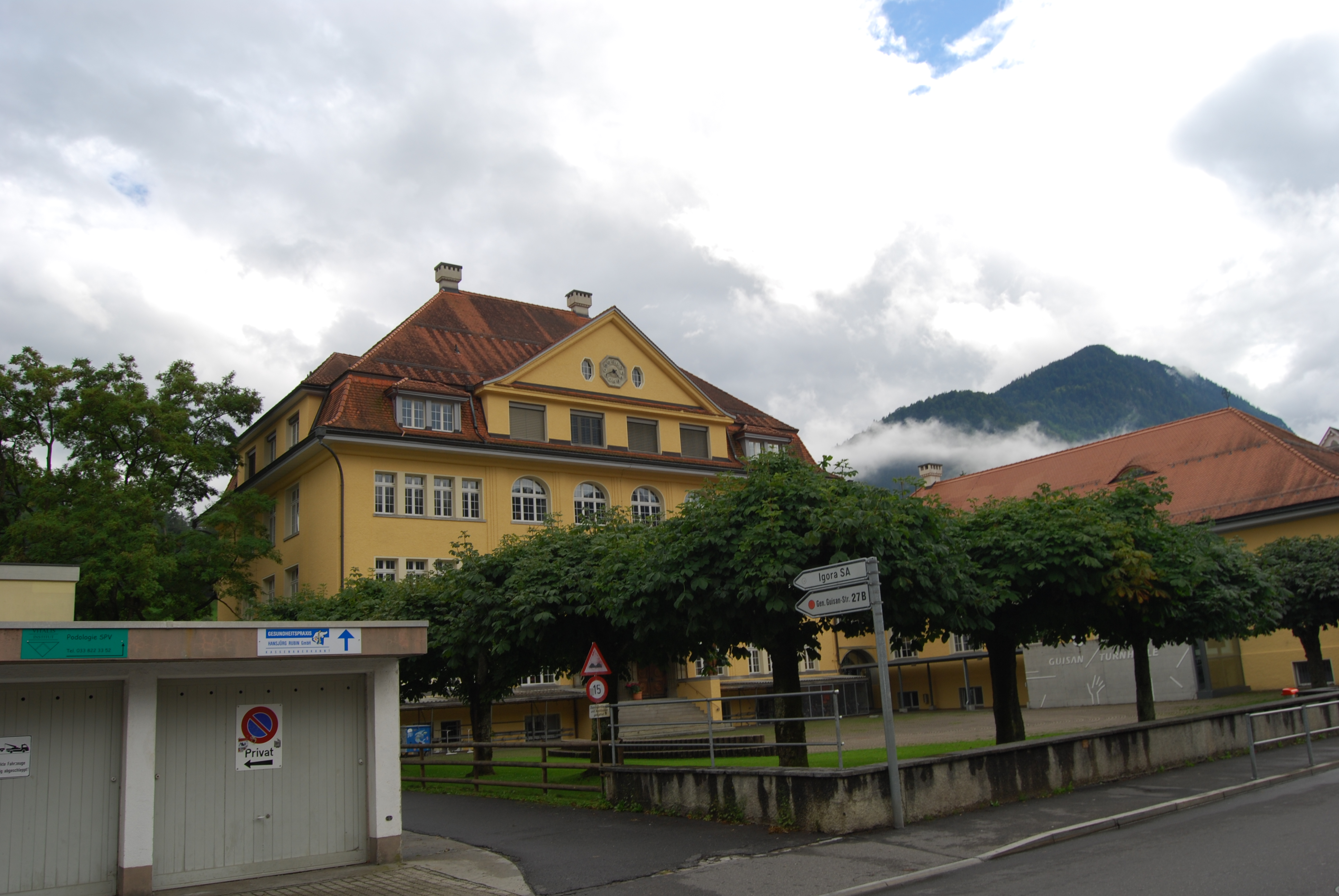 School building at Interlaken, canton of Bern, SwitzerlandEsperanto: Lernejo en Interlaken, Kantono Berno, Svislando